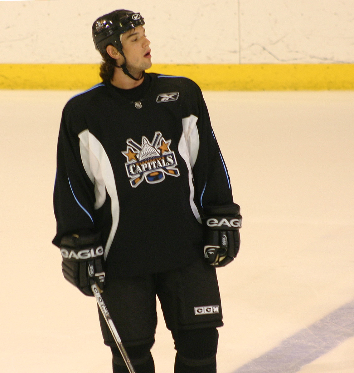 Jakub Čutta, czech ice hockey player @ Washington Capitals 2005 Training Camp